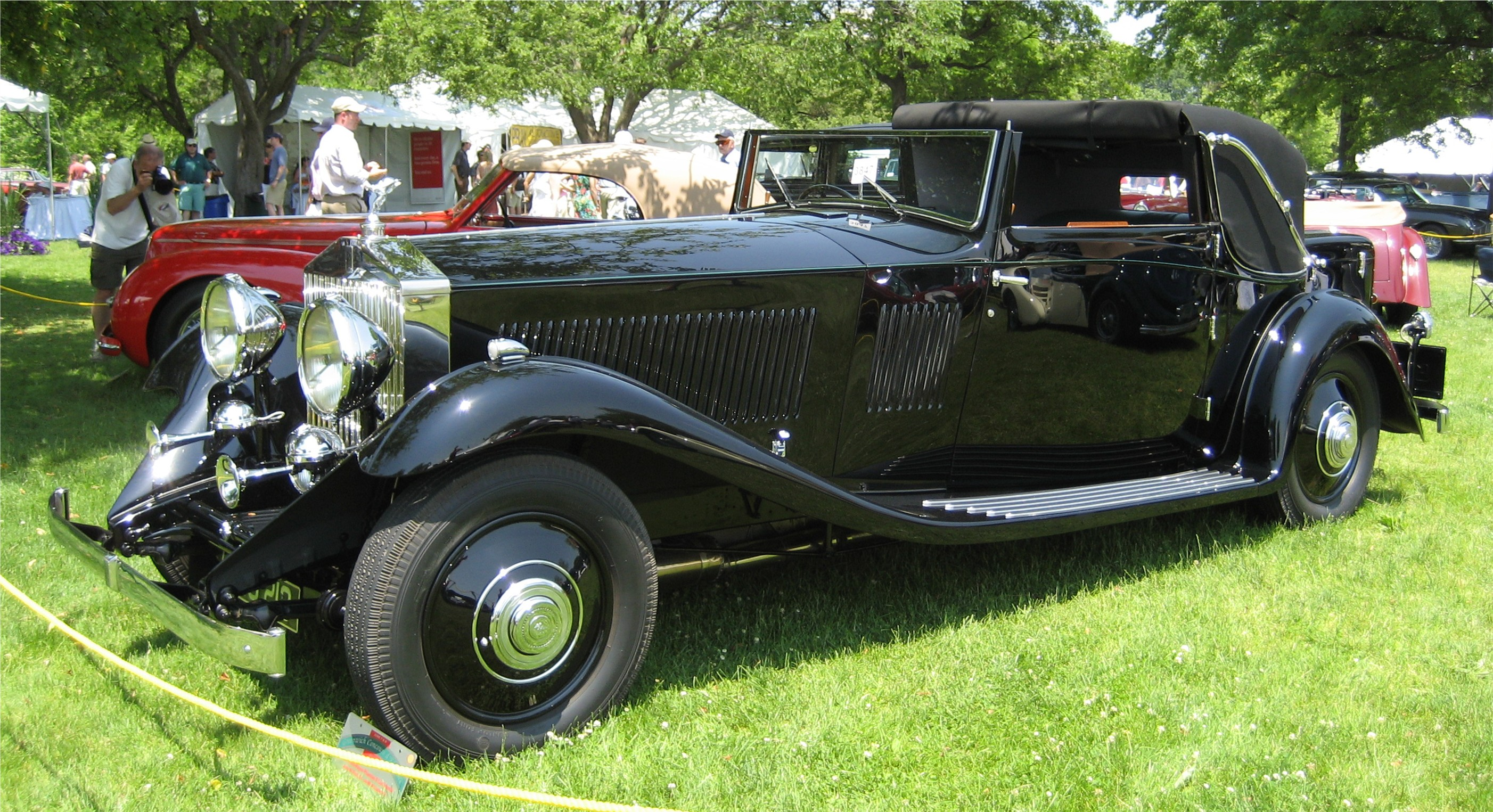 1933 Rolls-Royce Phantom II Continental with Sedanca Coupé coachwork by Gurney Nutting photographed at the 2008 Greenwich Concours d'Elegance in Greenwich, Connecticut.